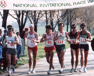 Dave McGovern, from personal photo archives.